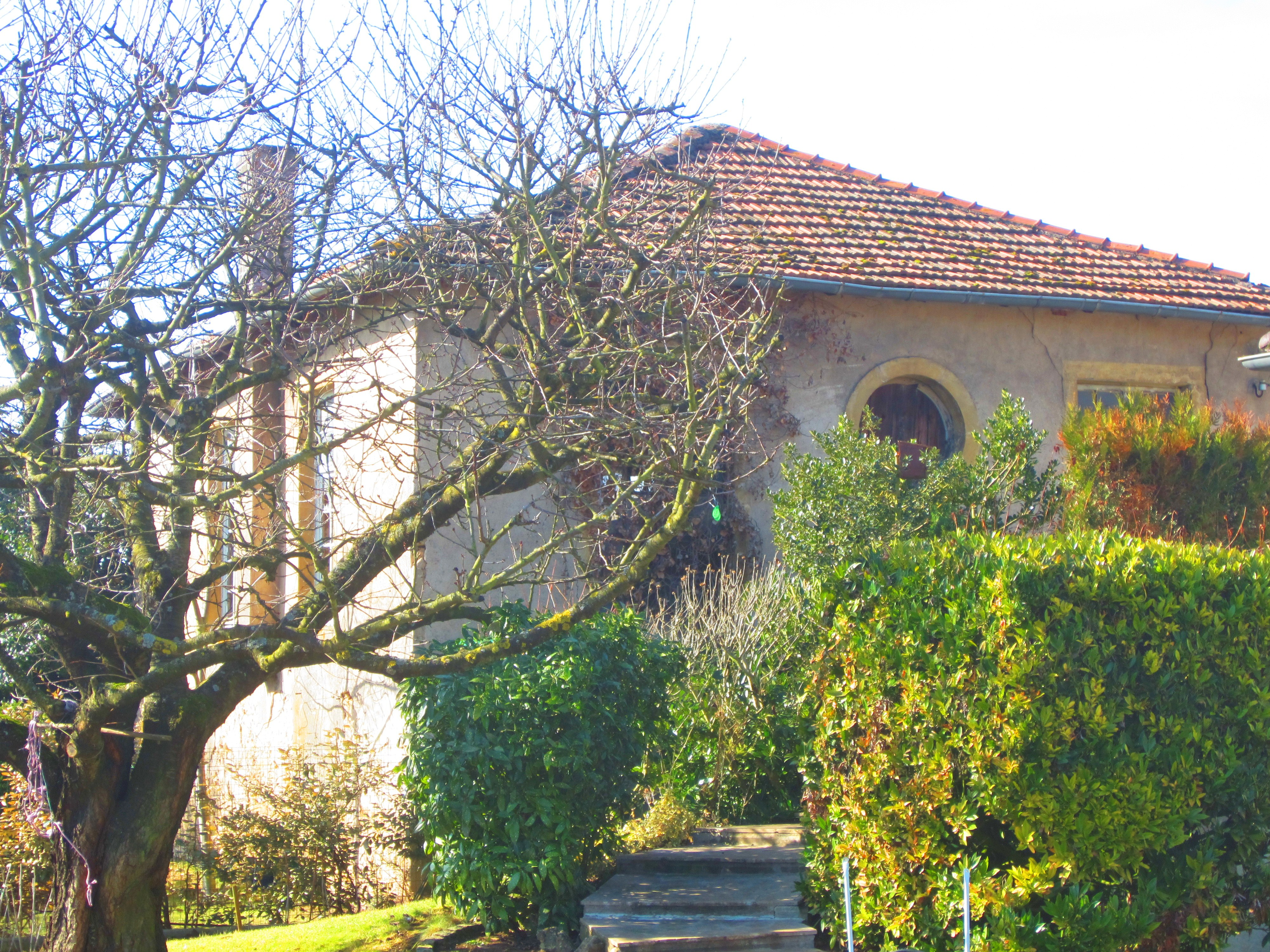 Ennery synagogue